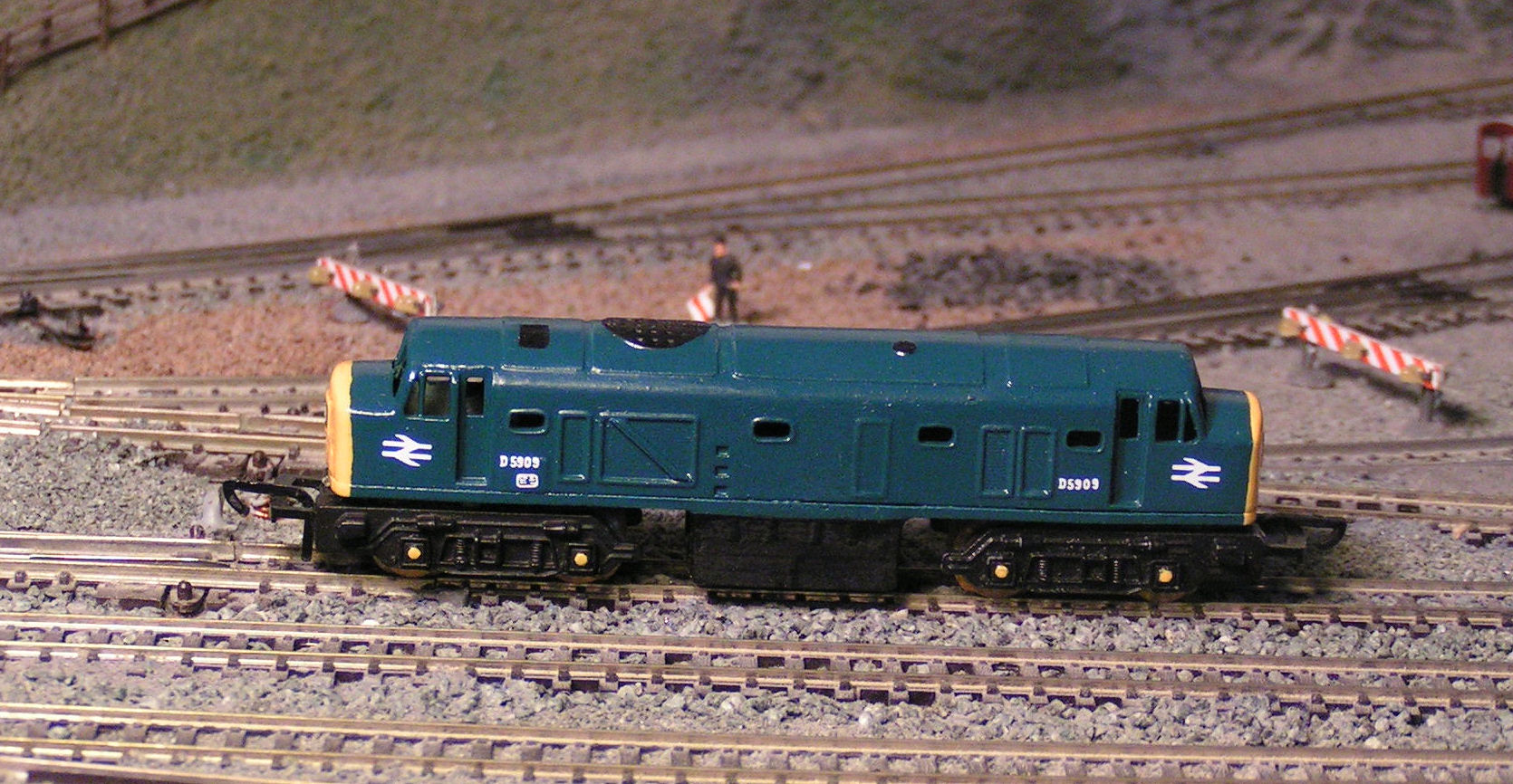 D5909 a Class 23 "Baby Deltic" which was the only example to be repainted in the then new rail blue livery. All of the other locomotives were painted green. This is a diecast model made from 1960 by Lone Star as part of their Treble-O-Lectric range. Collectors may consider it vandalism to repaint an old "collectable" - but as I had two of them, I didn't mind!